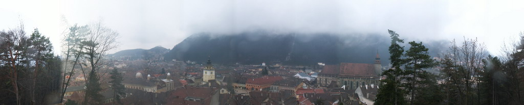 Brasov panorama